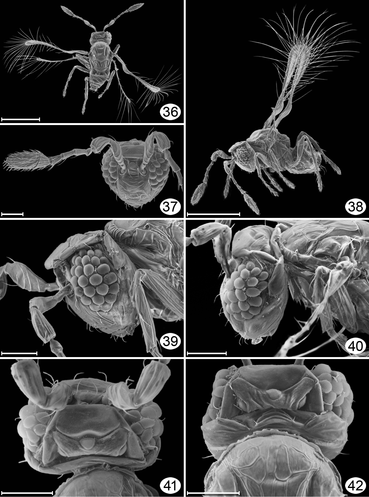 Kikiki huna female, micrographs. 36 habitus, dorsal 37, head + antennae, anterior 38 habitus, lateral 39 head, lateral 40 head + anterior mesosoma, dorsolateral 41 head + base of antenna, dorsal 42 head, posterodorsal + anterior mesosoma, dorsal. Scale line = 20 μm, except 36, 38 = 100 μm.